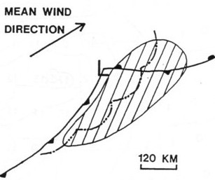 A serial derecho event (hatched area) is typically associated with an extensive squall line (dashed & two dotted line) with multiple embedded bow echoes. Within the squall line, the bow echoes may be of widely varying sizes. Serial derecho events are usually associated with a well defined, migrating low pressure system.